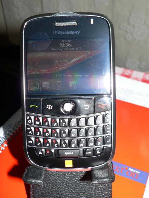 BlackBerry Bold 9000 Series , brand new.